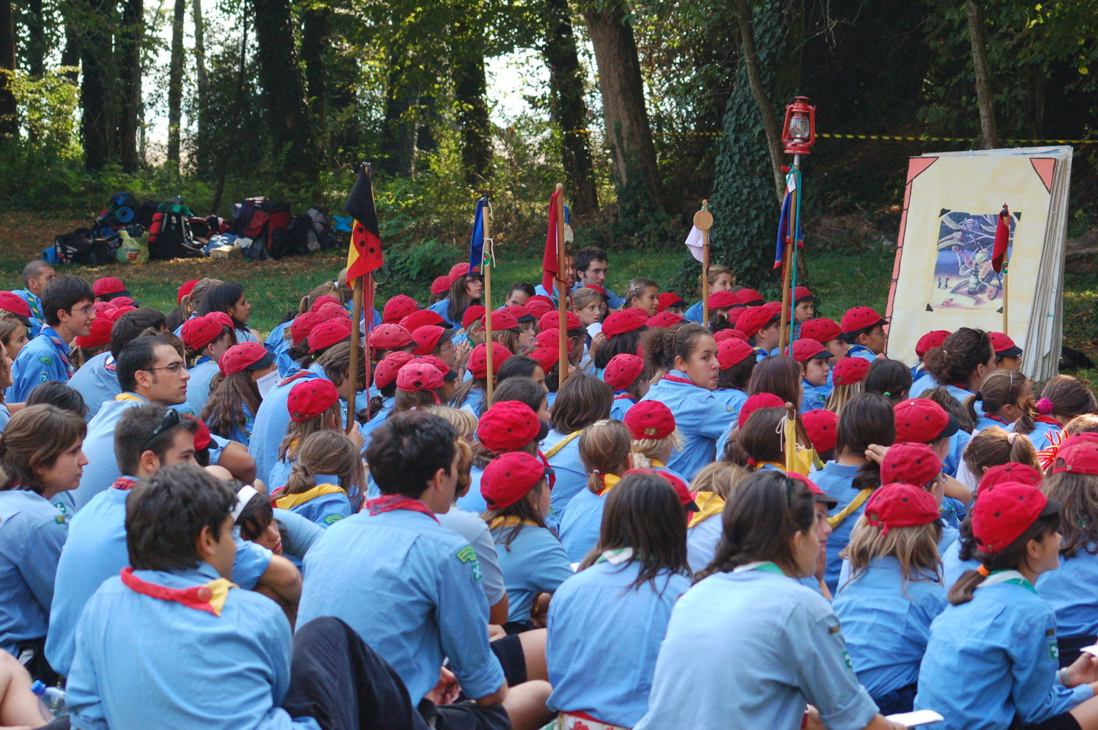 AGESCI young scouts at Lombardy Regional Meeting (semptember 23, 2007) - Roncadello di Dovera (CR), Italy